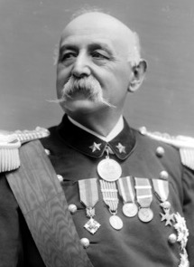 Giuseppe Ettore Vigano